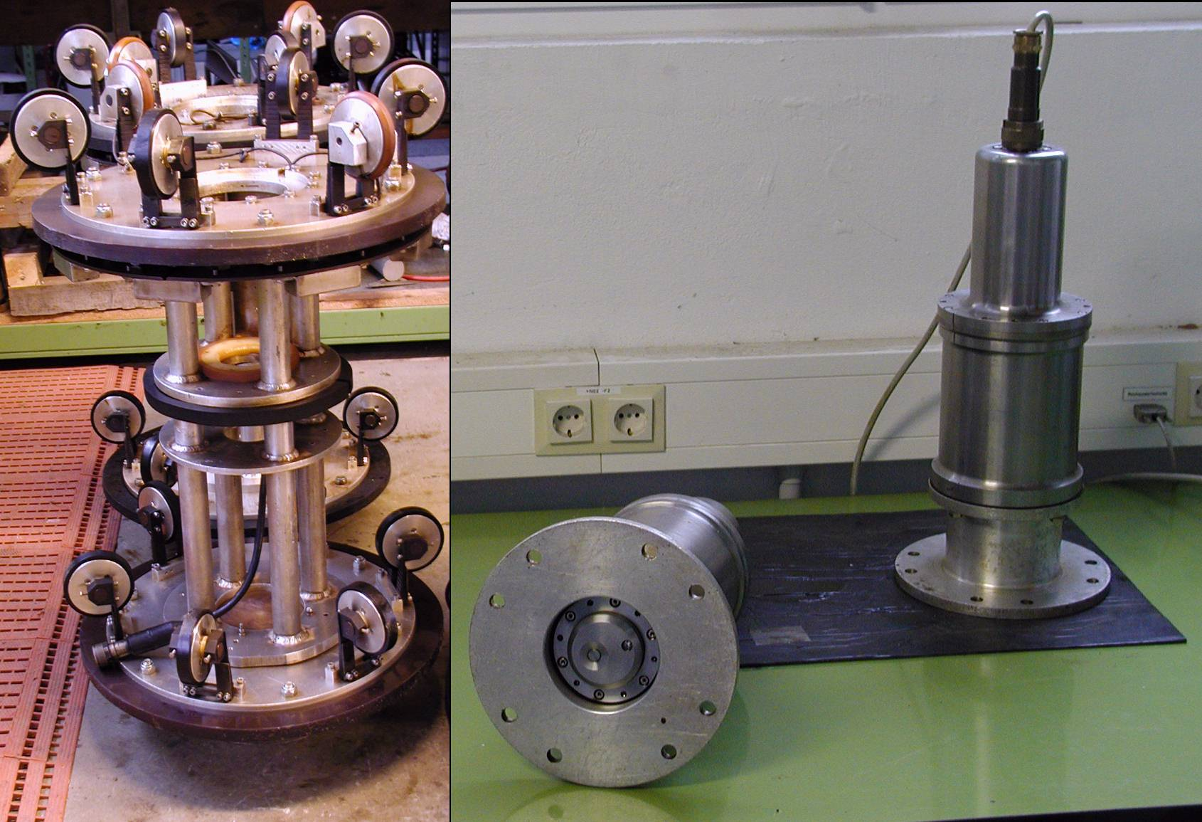 Leak detection pig, the electronic leak noise recording unit is inserted in the middle of the pig carriage